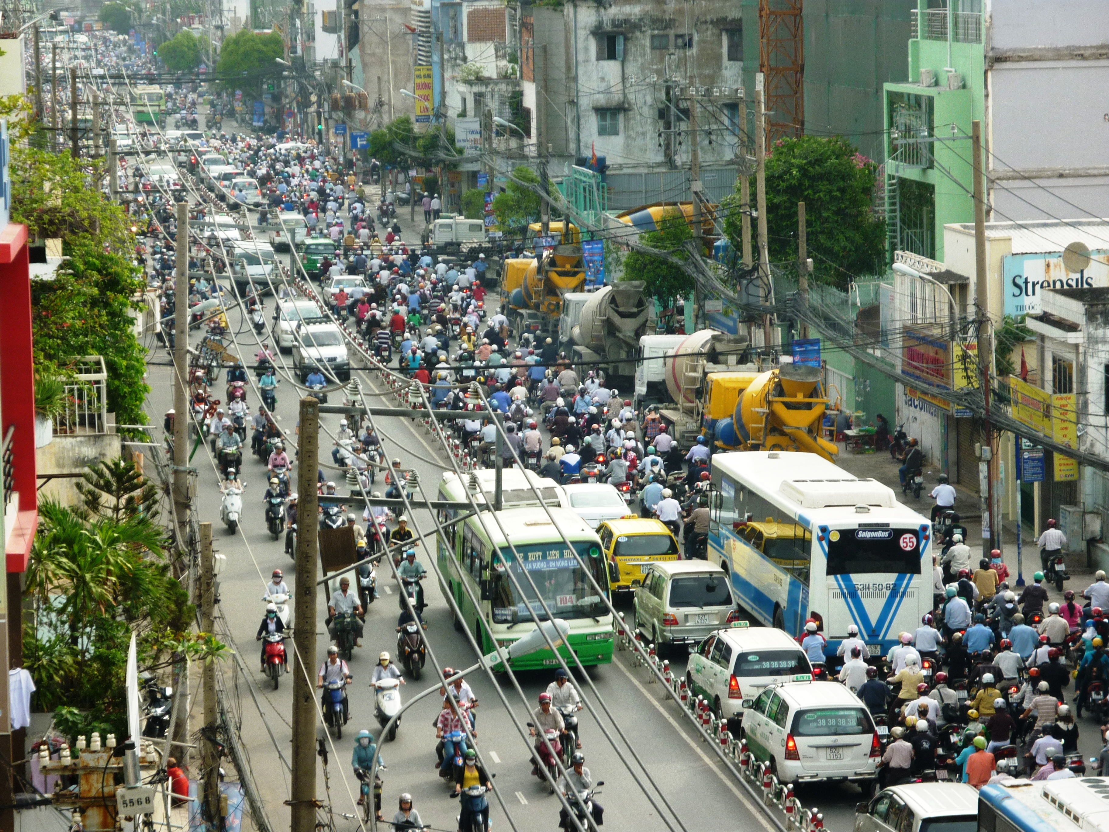 Buses in rush hour